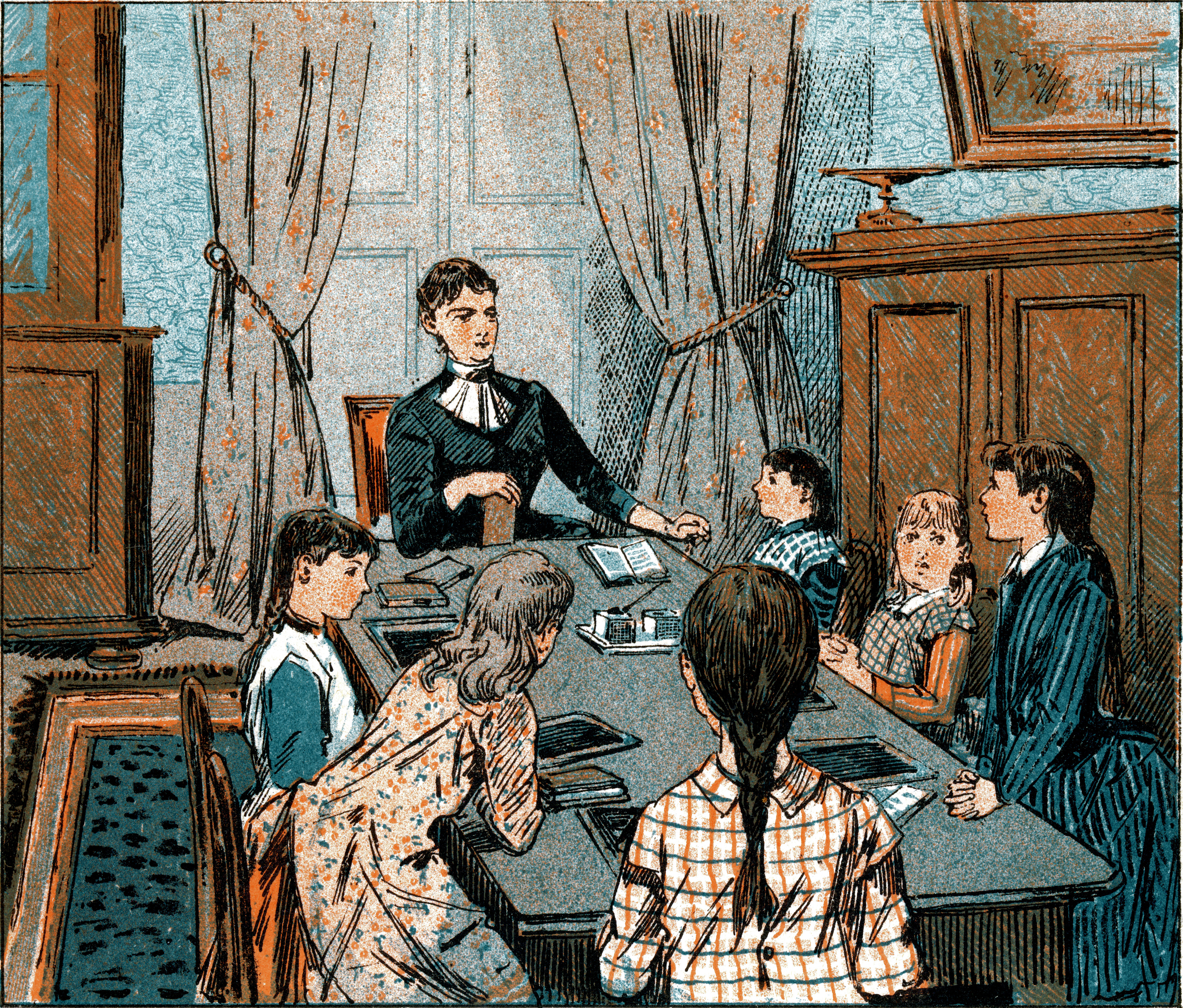 Representation. - But is there now any of you who know what it means to be represented? - May I - Yes, it is like mother telling Frederik on a Sunday that he shall go to our bench in Our Lady's Church, that's how our family is represented.